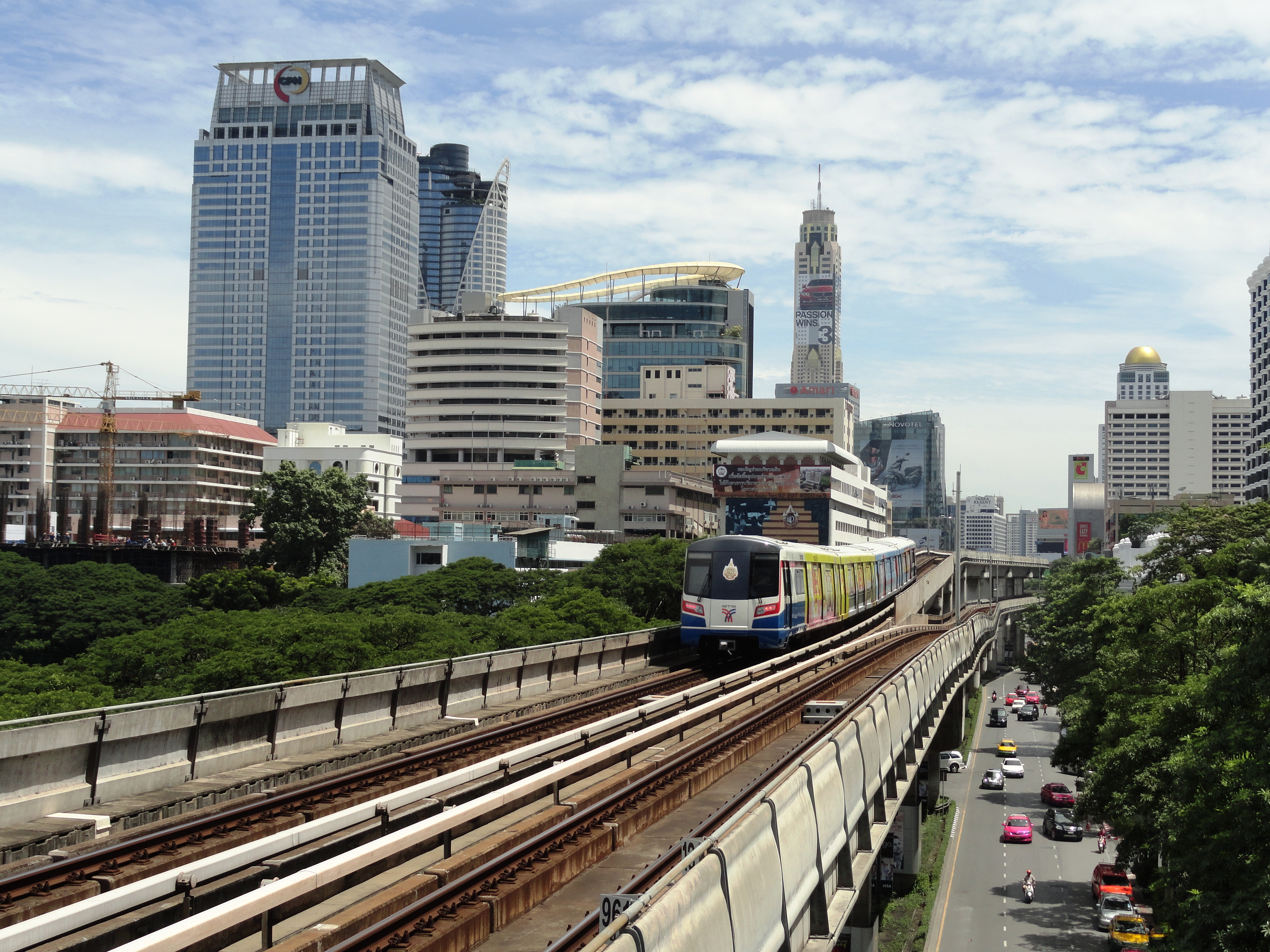 A BTS Skytrain arriving to Ratchadamri Station in Bangkok. This shot is looking to Siam District and Centara Grand at Central World.